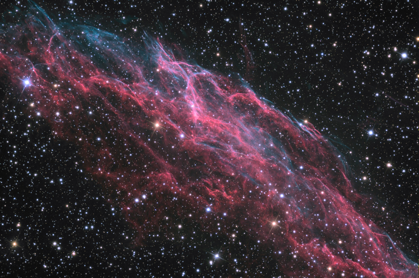 Optics 24-inch RC Optical Systems Telescope Camera SBIG STL11000 CCD Camera Filters Custom Scientific Dates June 23rd 2009 Location Mount Lemmon SkyCenter Exposure LRGB = 110:50:40:50 minutes Acquisition Astronomer Control Panel (ACP), TheSky (Software Bisque), Maxim DL/CCD (Cyanogen) Processing CCDStack (CCDWare), Mira (MiraMetrics), Maxim DL (Cyanogen), Photoshop CS3 (Adobe) Guest Astronomers Bill Stoffers and John Fitzgerald Credit Line & Copyright Adam Block/Mount Lemmon SkyCenter/University of Arizona